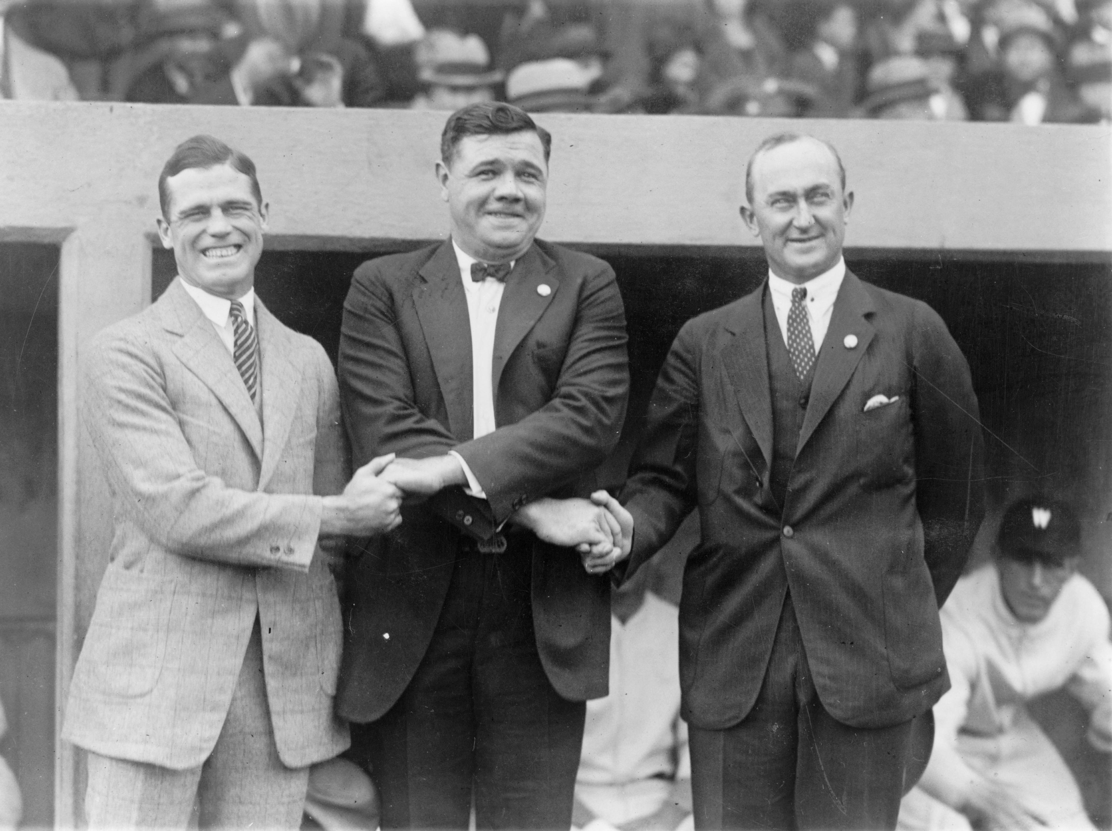 Three base ball stars here for the World Series. L. to R: George Sisler, Babe Ruth and Ty Cobb.